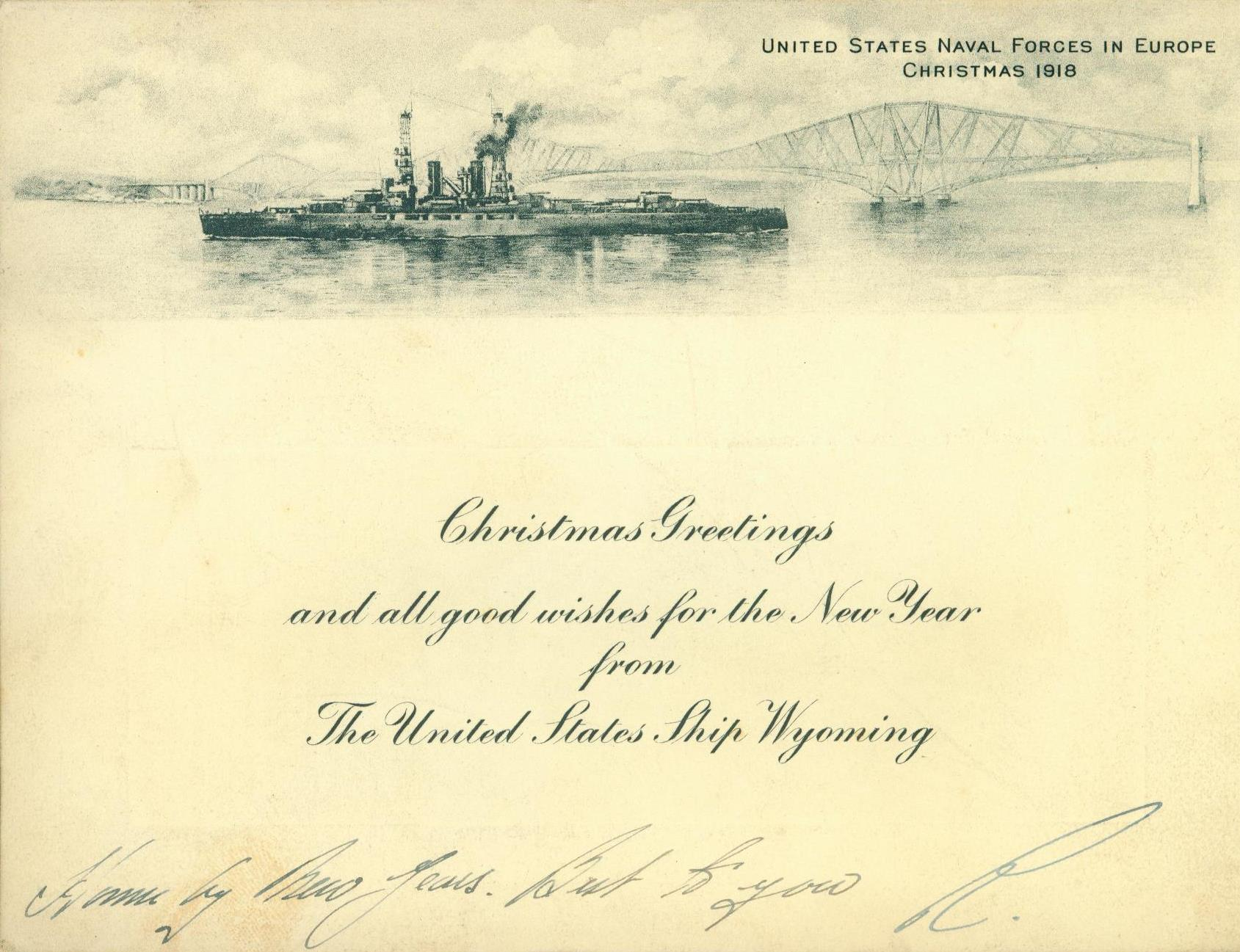 This card from the USS Wyoming was sent by Randolph Coyle in 1918. The text of the card reads "Christmas Greetings and all good wishes for the New Year from The United States Ship Wyoming". From the Randolph Coyle Collection (COLL/5471) at the Marine Corps Archives and Special Collections OFFICIAL USMC PHOTOGRAPH